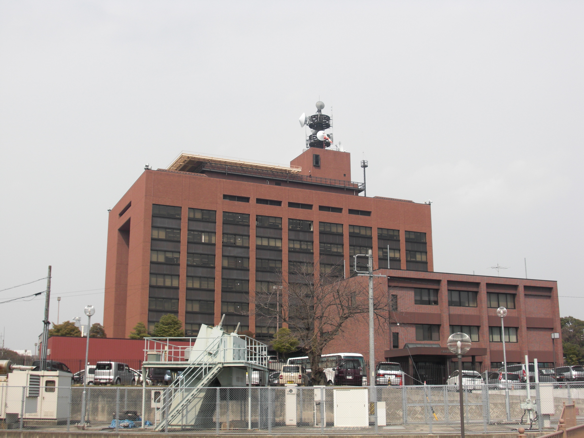 This is the Mie prefectural police headquarters building, which is located in Tsu, Mie, Japan.